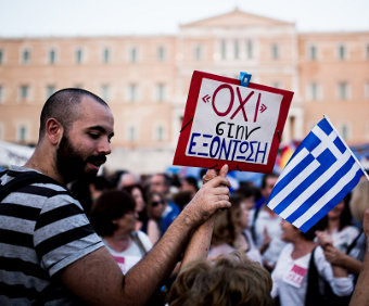 A protestor outside the Greek parliament building on 29 June 2015, holding a sign reading "ΟΧΙ" στην ΕΞΌΝΤΩΣΗ ("no to annihilation"), referring to the Greek bailout referendum, 2015